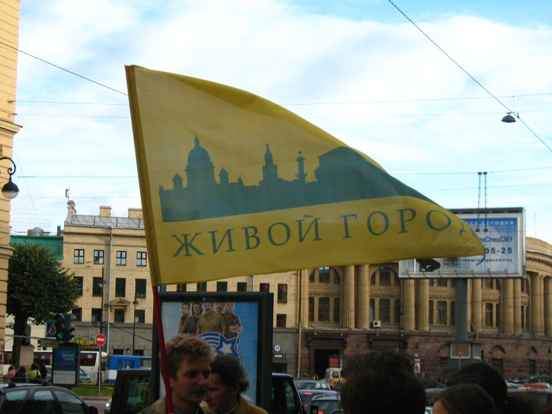 The banner of Live City public organization